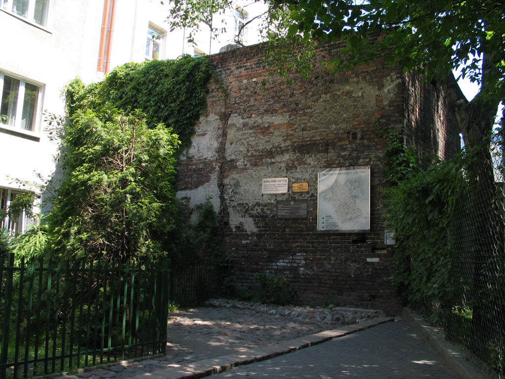 Remaining part of Warsaw Ghetto wall in a backyard of Złota 60.